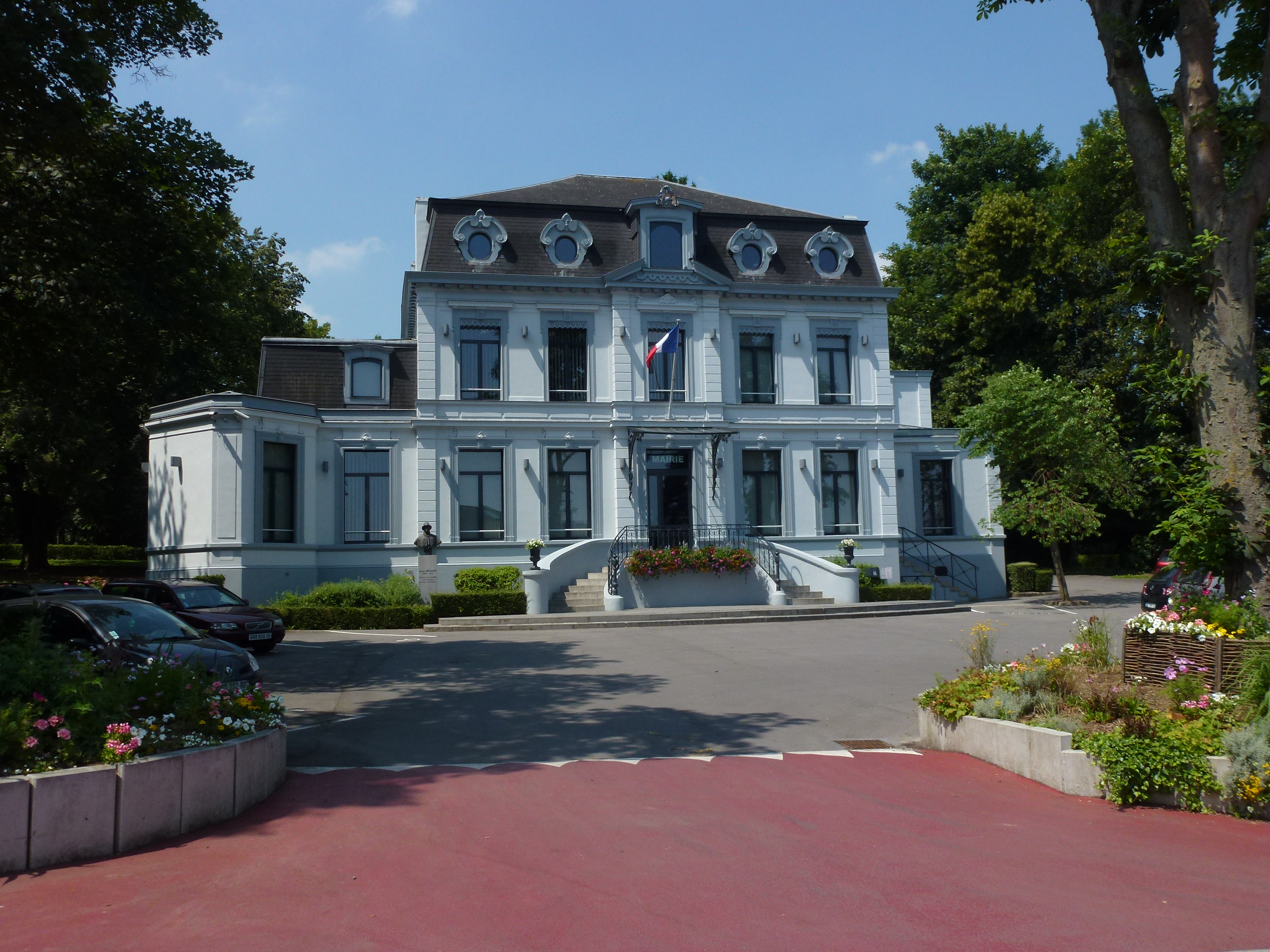 Saultain (Nord, Fr) mairie